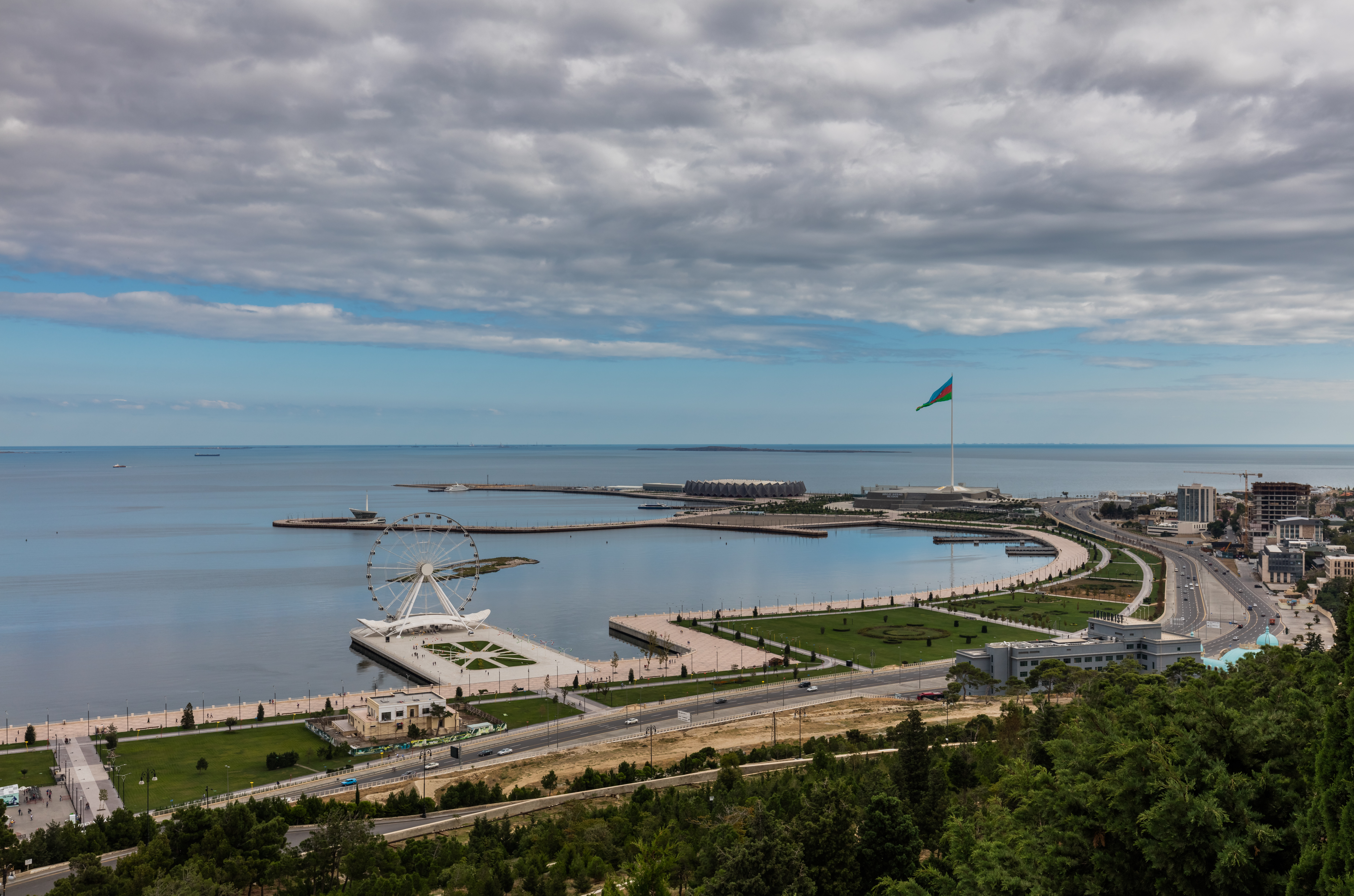 View of Baku, Azerbaijan